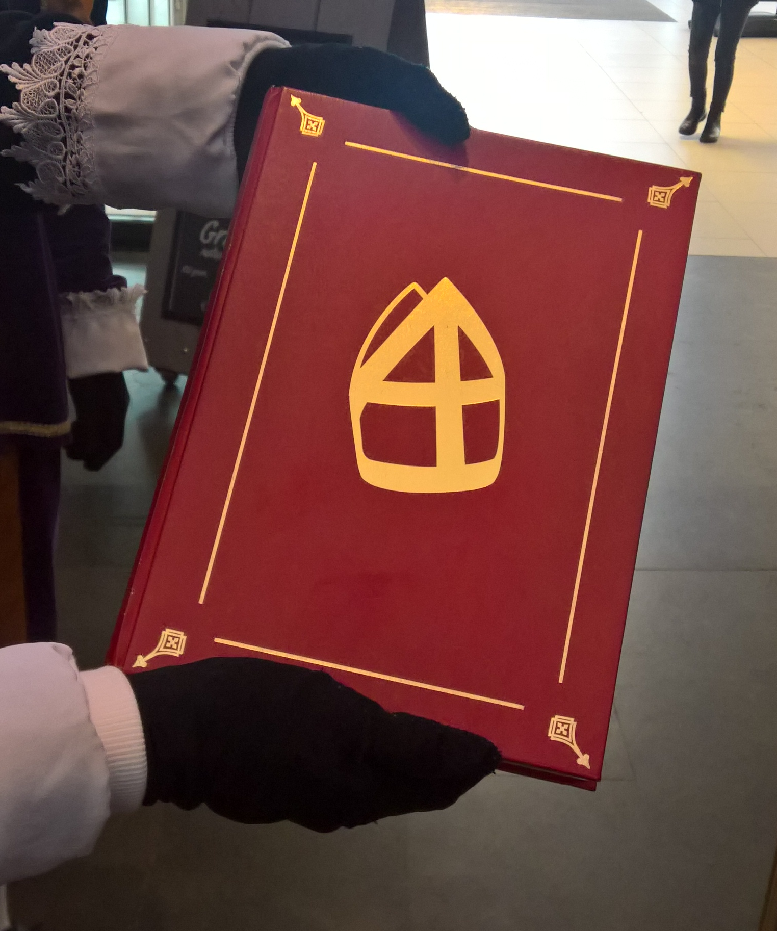 The arrival of Sinterklaas (Saint Nicholas 😇) to the Groninger city 🏙 of Winschoten.